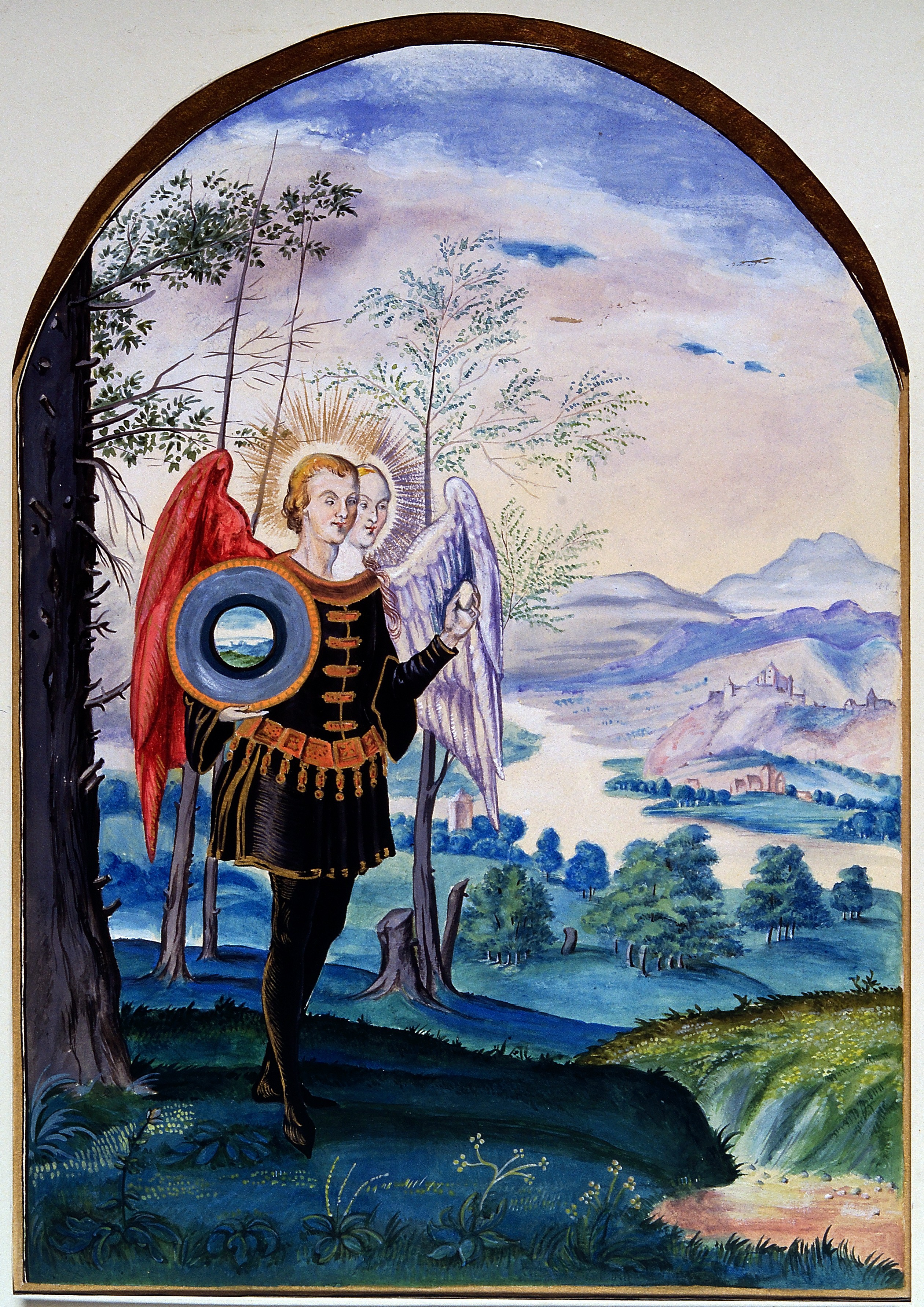 The Hermetic androgyne; representing the stages of the alchemical Work in One; from Salomon Trismosin's 'Splendor solis'. Watercolour painting. Iconographic Collections Keywords: Salomon Trismosin